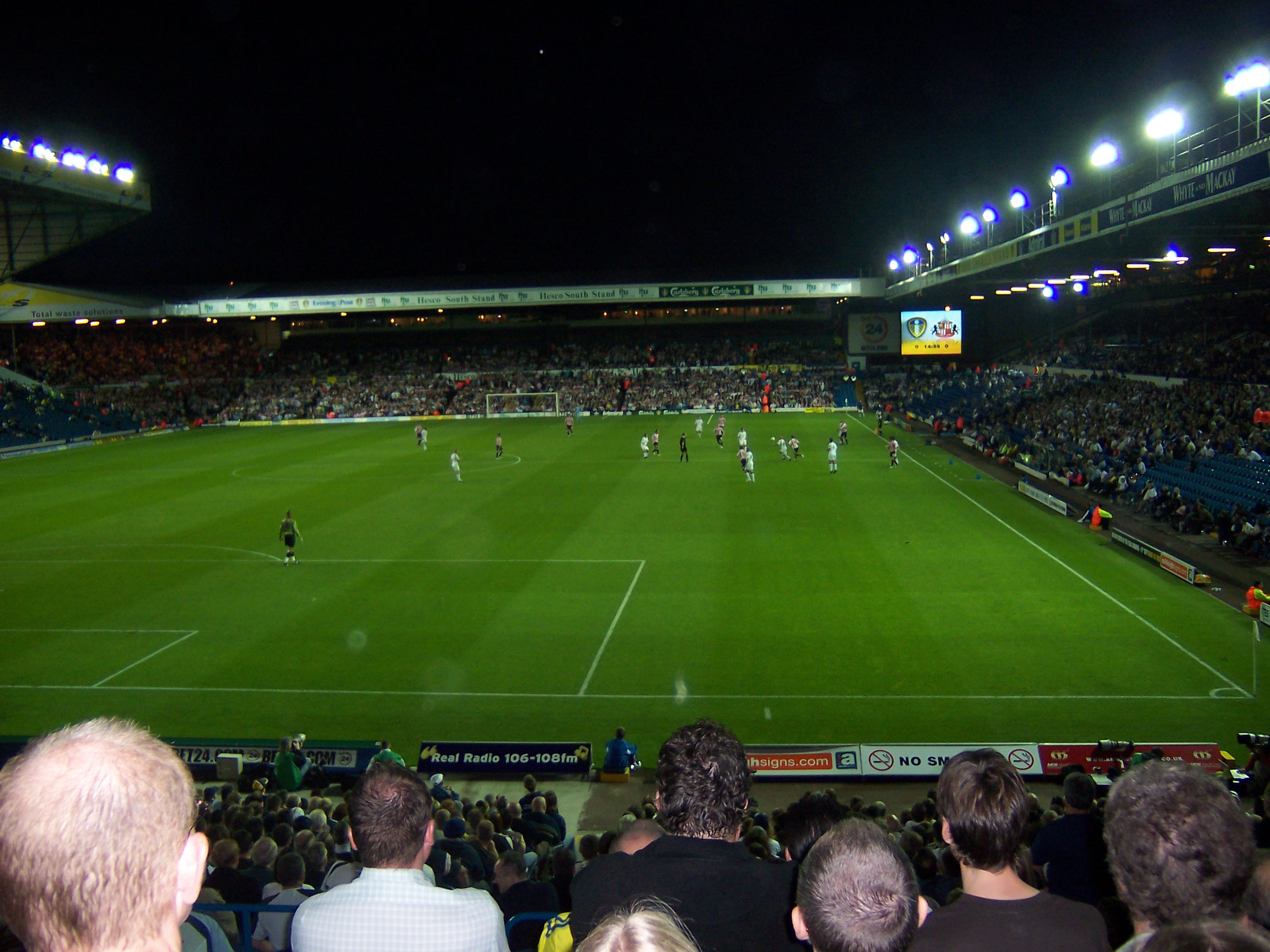 Elland Road